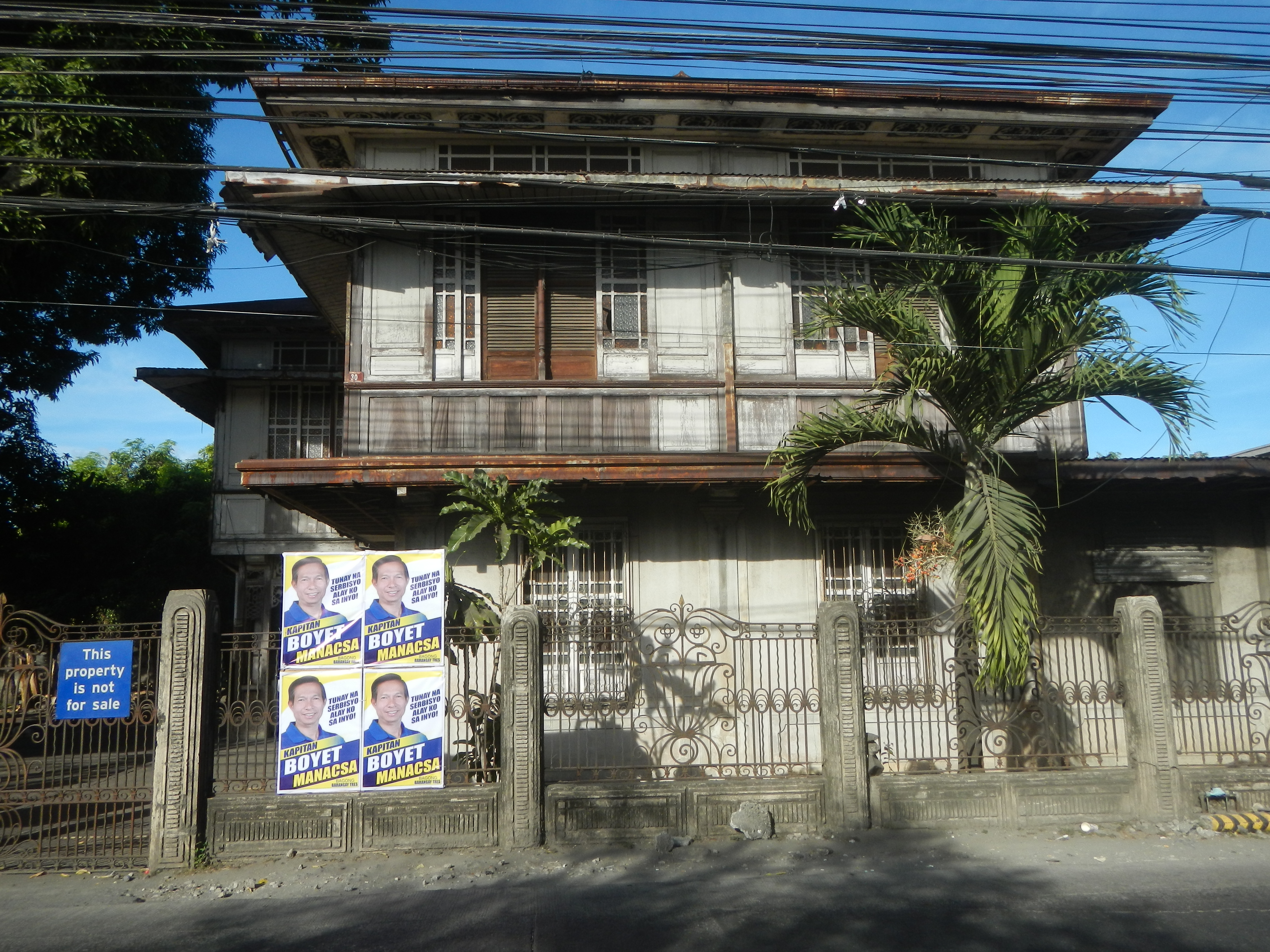 City Global College - Cabuyao Cabuyao City Hall Complex Old houses in Cabuyao City, Laguna List of Barangays in Cabuyao Barangays Poblacion II, Cabuyao Poblacion III, Cabuyao, Cabuyao Dos 14°16'40"N 121°7'26"E Tres 14°16'30"N 121°7'24"E Sala 14°15'56"N 121°7'28"E (Note: Judge Florentino Floro, the owner, to repeat, Donor Florentino Floro of all these photos hereby donate gratuitously, freely and unconditionally Judge Floro all these photos to and for Wikimedia Commons, exclusively, for public use of the public domain, and again without any condition whatsoever).